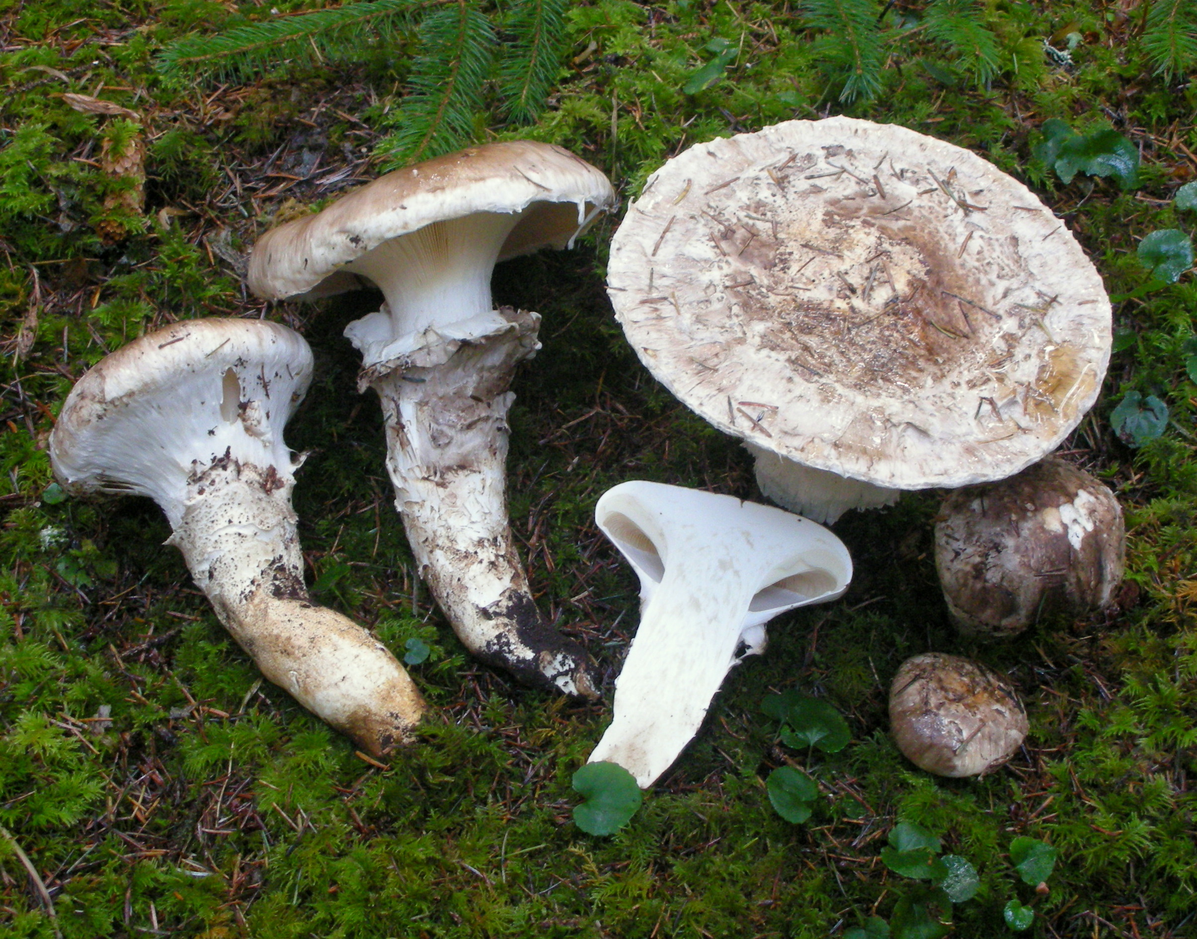 Catathelasma ventricosum (Peck) Singer Image location: Big Lagoon County Park, Humboldt Co., California, USA A good photo requires patience and preparation. Recognized by sight Thank you Noah. (I should have used a tripod.) For more information about this, see the observation page at Mushroom Observer.